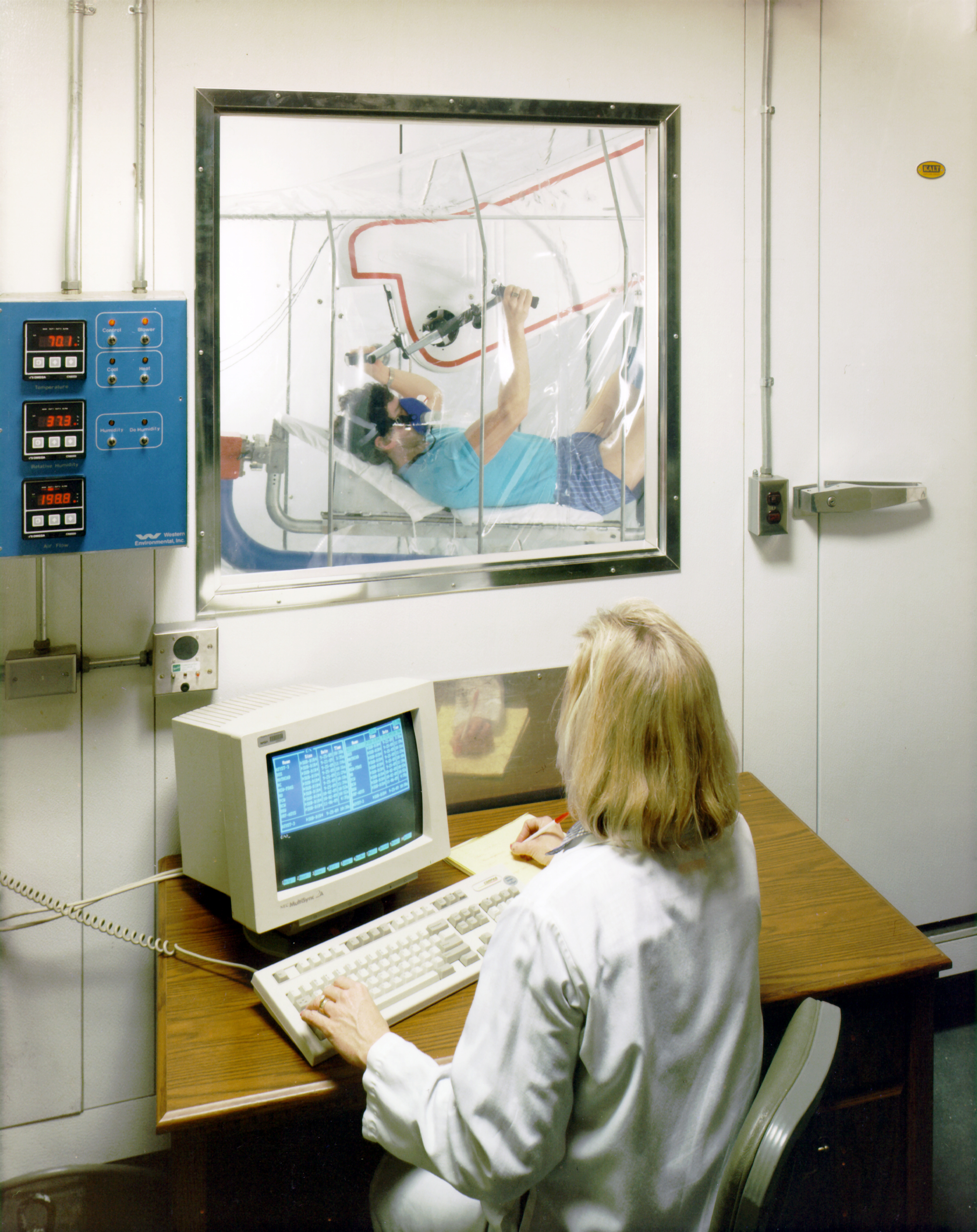 EVA (Extra Vehicular Activity) Exercise Device for evaluation and effectiveness of weightlessness on astronauts during long duration spaceflights at the NASA Ames Research Center, Mountain View, California.